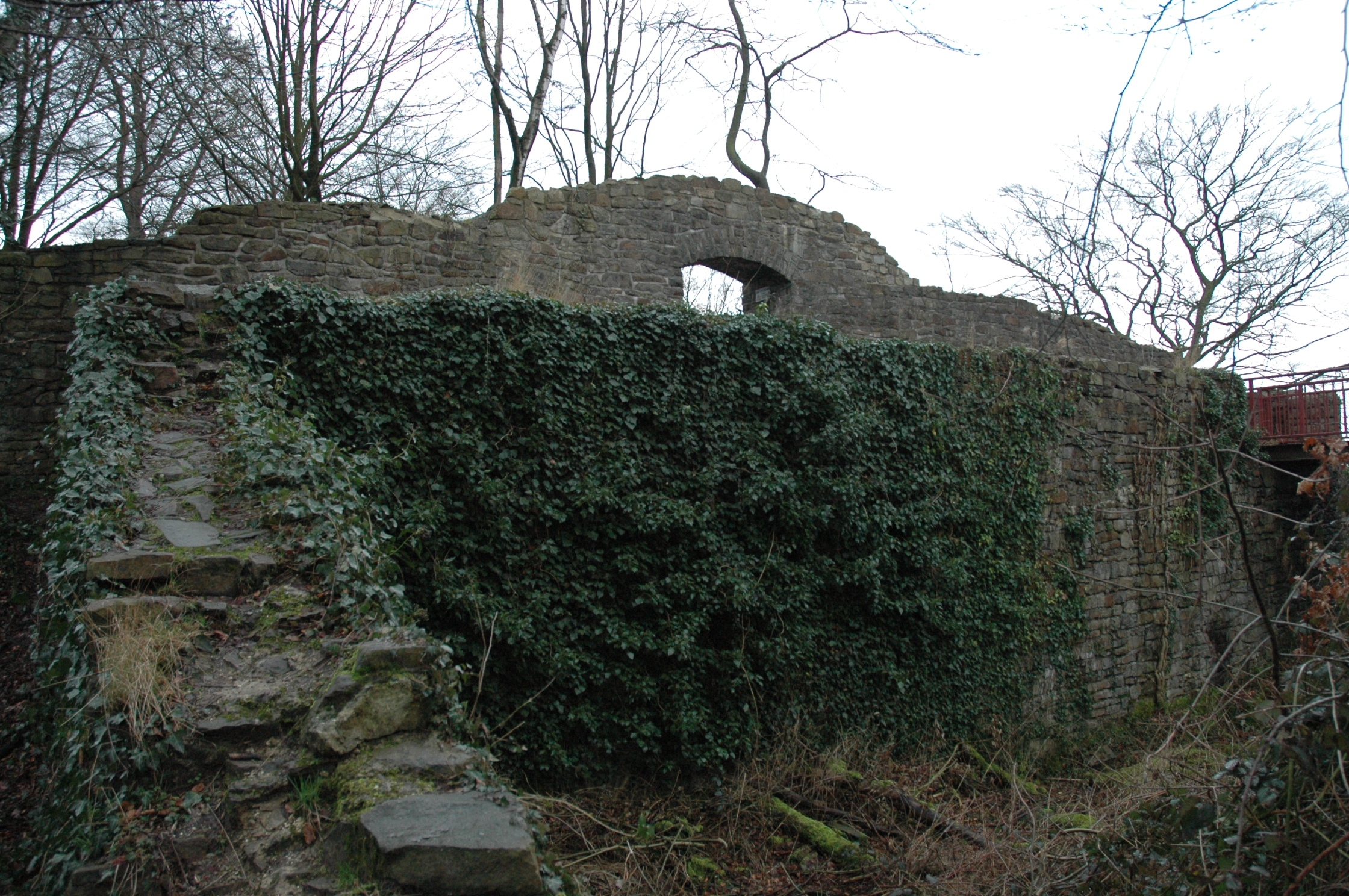 Outer ward and gate of the Neue Isenburg in Essen